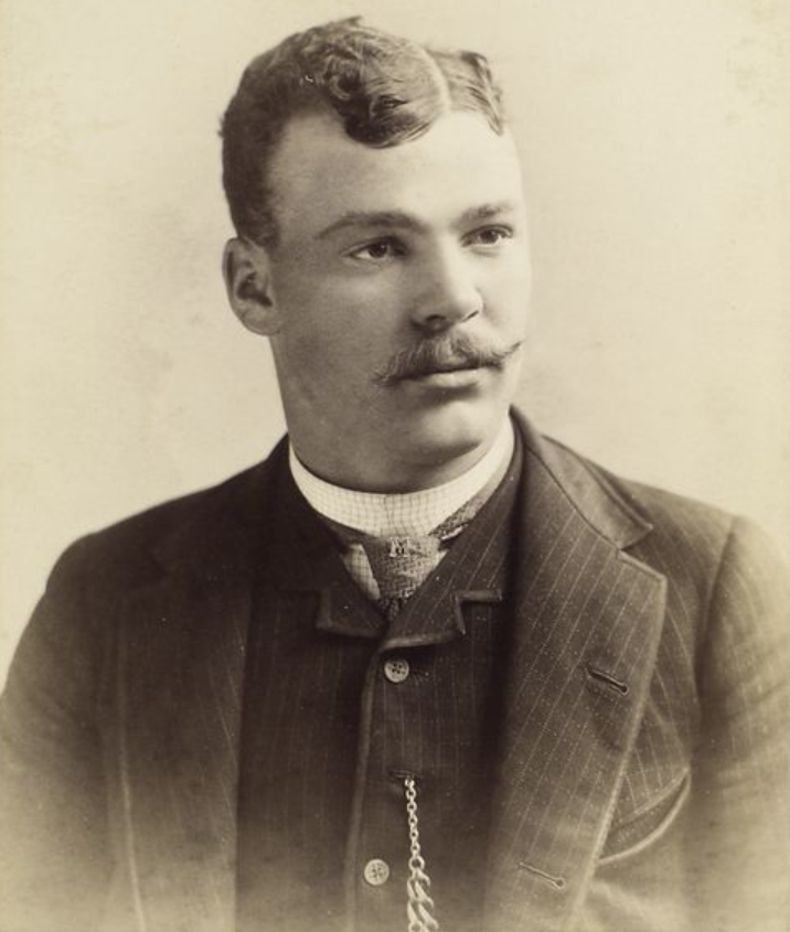 Cabinet Photograph of Jim McGuire